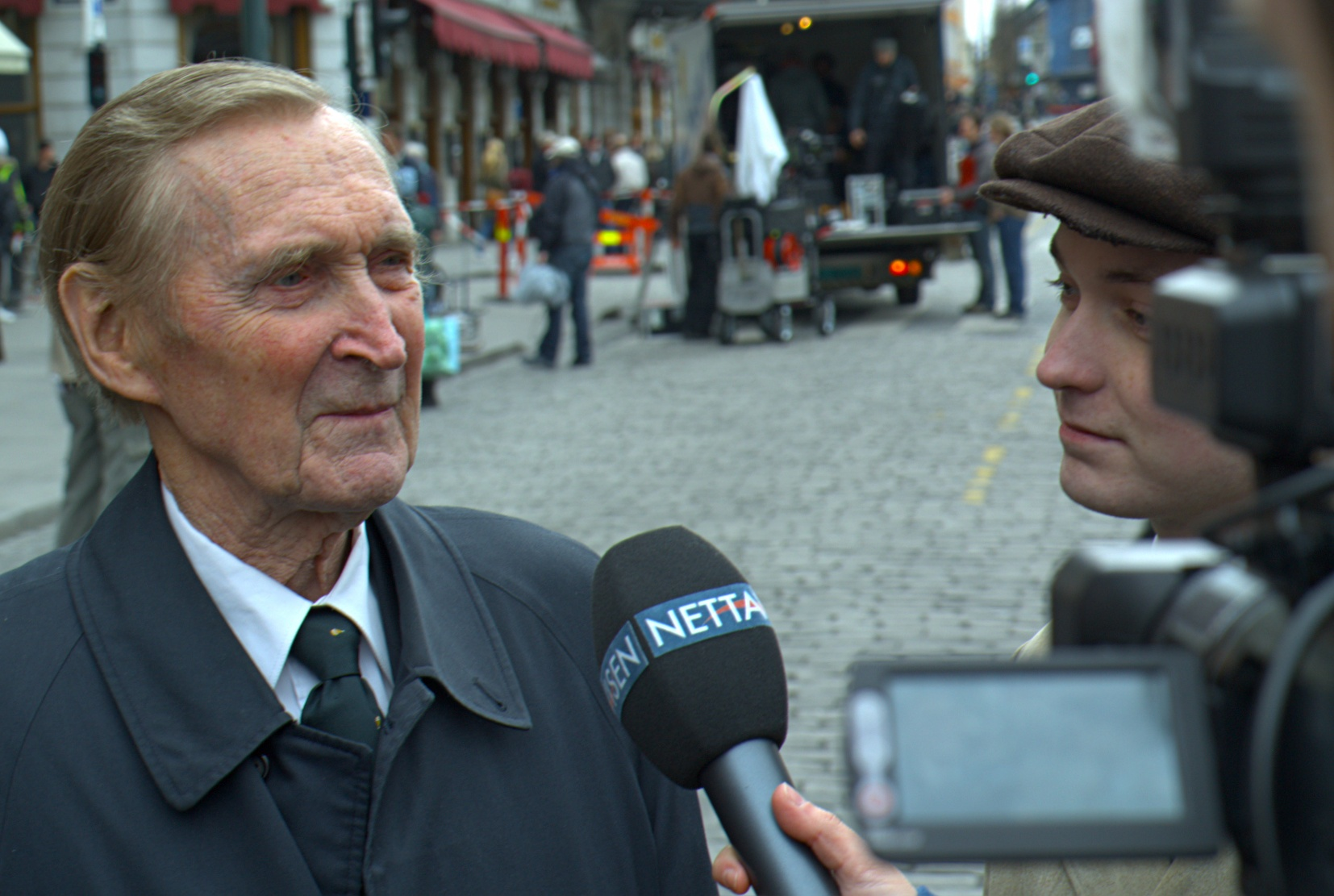 Interview with the Norwegian war hero Gunnar Sønsteby on location for the movie «Max Manus». To the right is Knut Joner, who portrays Sønsteby in the film.